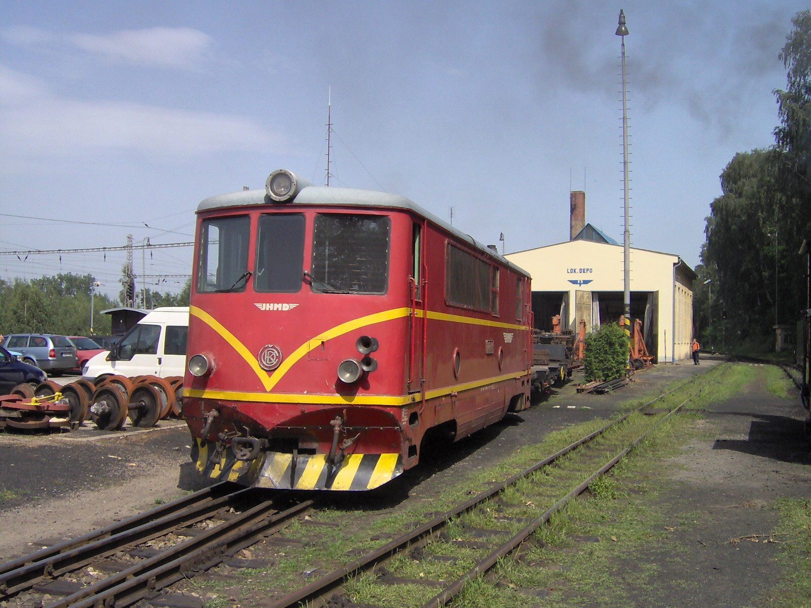 Narrow gauge diesel locomotive 705.911 (T 47.011), Jindřichův Hradec, Czech Republic